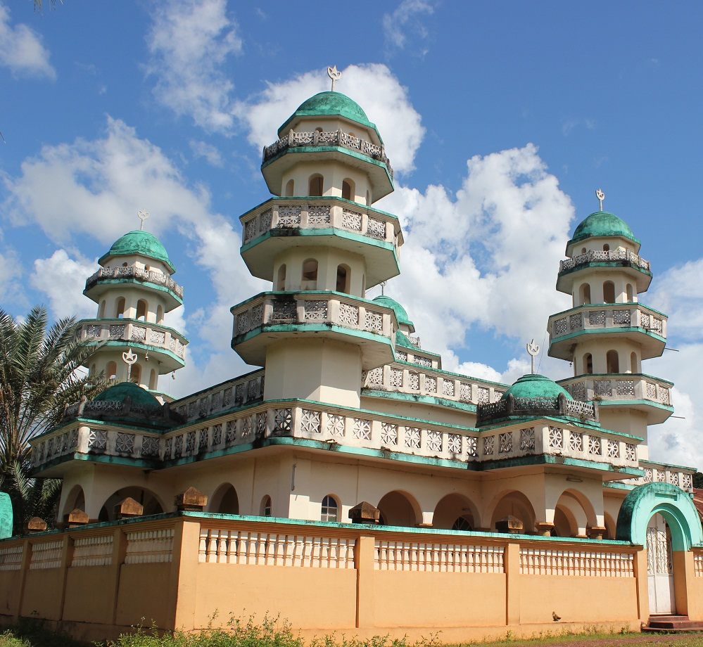 Ribia's mosque en route to Outamba-Kilimi Park